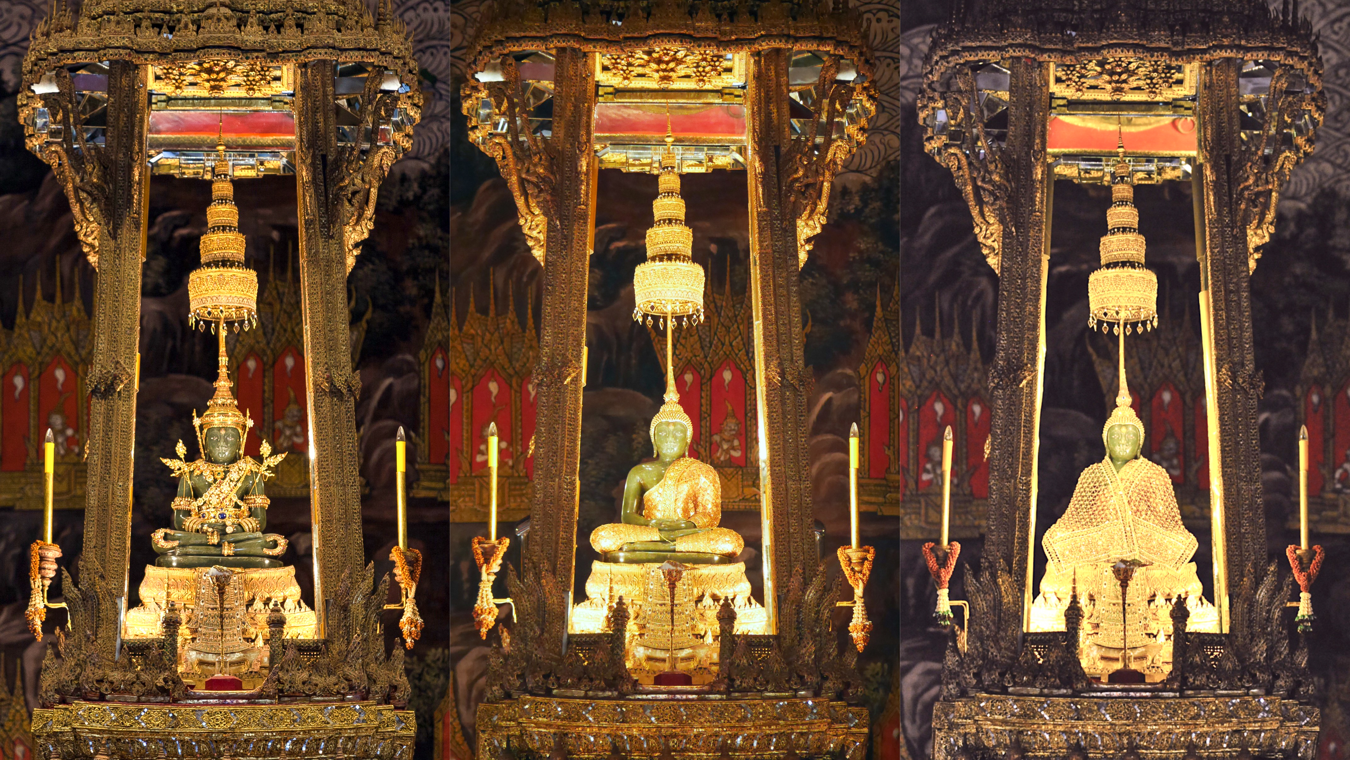 The Emerald Buddha adorned with three seasons regalia. From left to right: Summer, Rainy, Winter